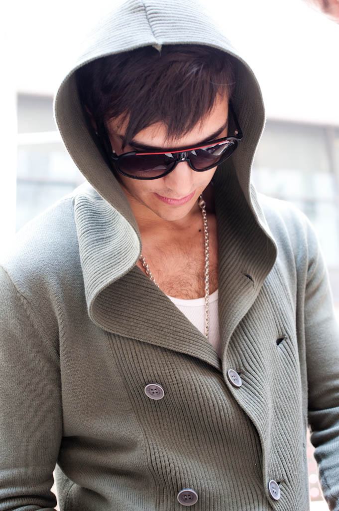 Eric Saad, Swedish contestant at Eurovision Song Contest 2011